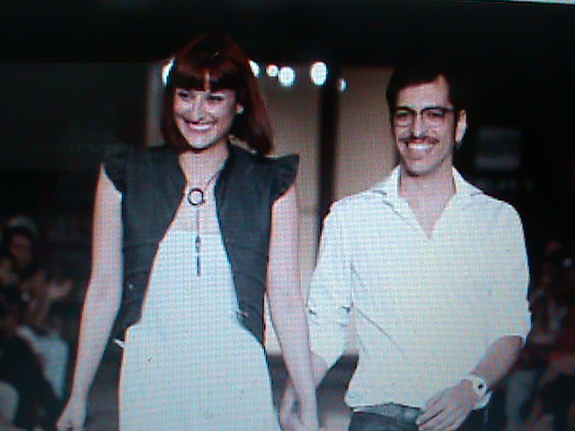 Os Burgueses - Lisbon Fashion Week -ModaLisboa